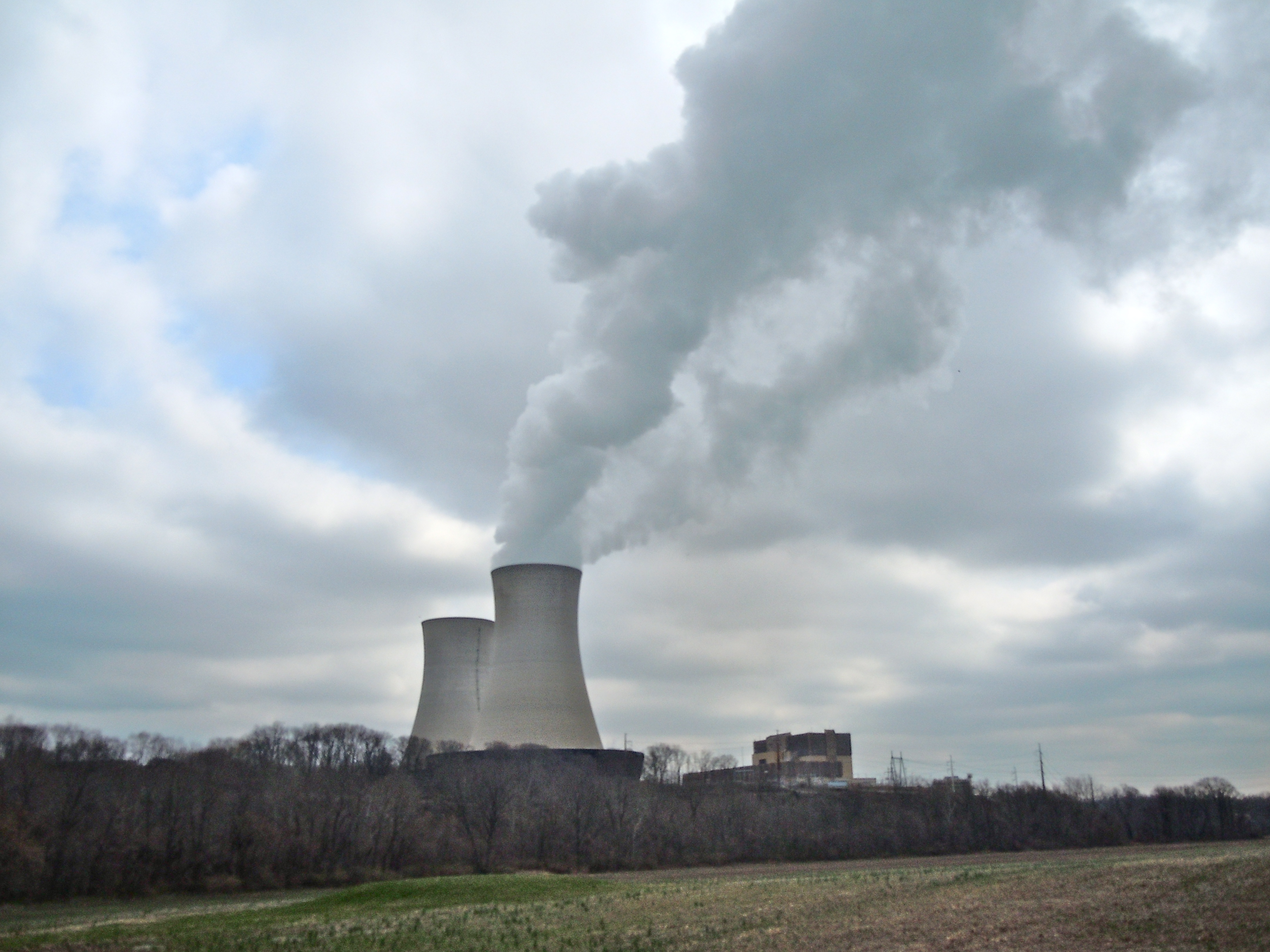 Limerick Nuclear Power Plant in Berks County, Pennsylvania. Picture taken from across the Schuylkill River in Chester County, PA. Plume is steam, not smoke.